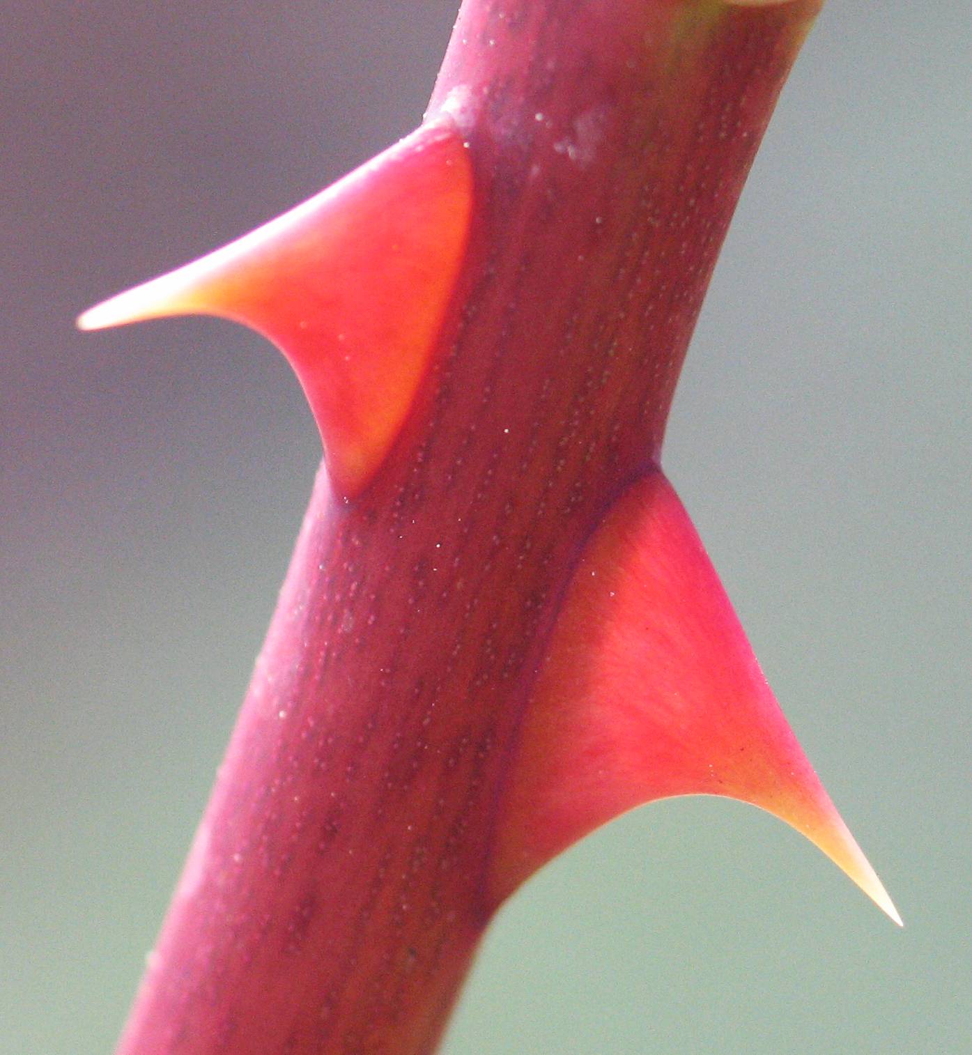 Although mature thorns are more brown and ugly, these fresh ones have an interesting translucence when hit with strong light (morning sunlight in this case).yin yang